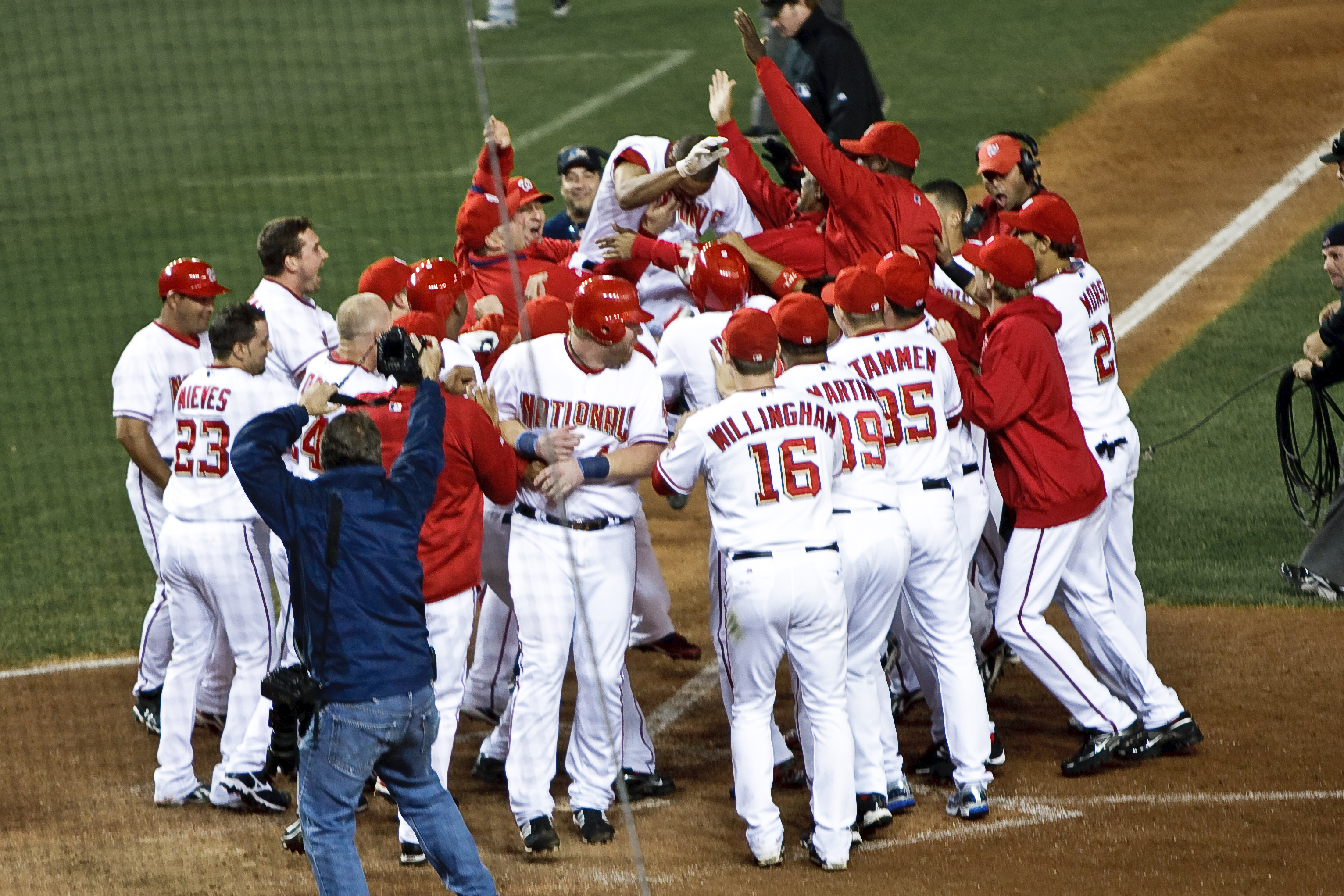 Washington Nationals celebrate a walk-off grand slam by Justin Maxwell. Taken on September 30, 2009 Commons upload by UCinternational (talk) 09:12, 2 October 2009 (UTC)